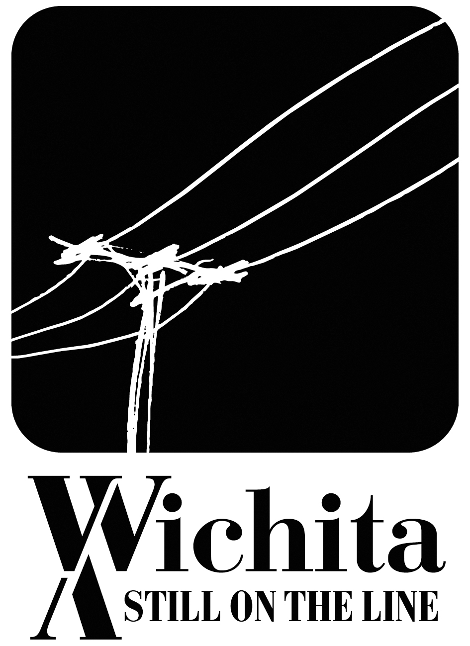 Wichita Recordings 2015 logo